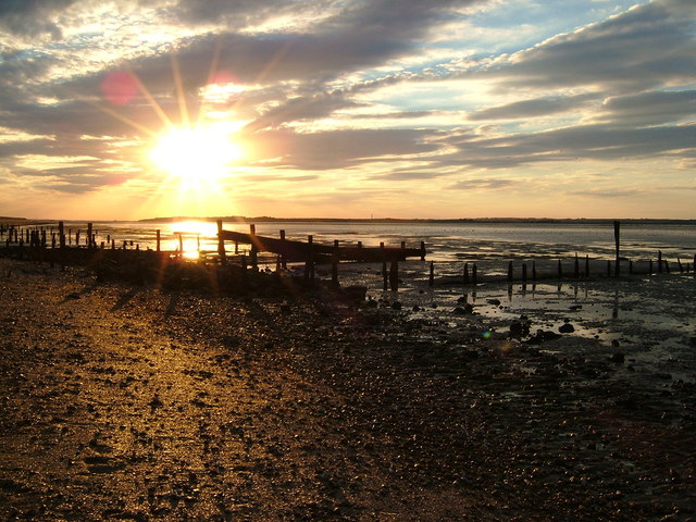 Cleve Marshes foreshore. Taken as sunset approached, looking along the foreshore, with the seawall just out of shot to the left and the extensive mudflats at mid-tide to the right. The Isle of Sheppey is the low line of land in the distance across the Swale. Another stunning North Kent sunset.